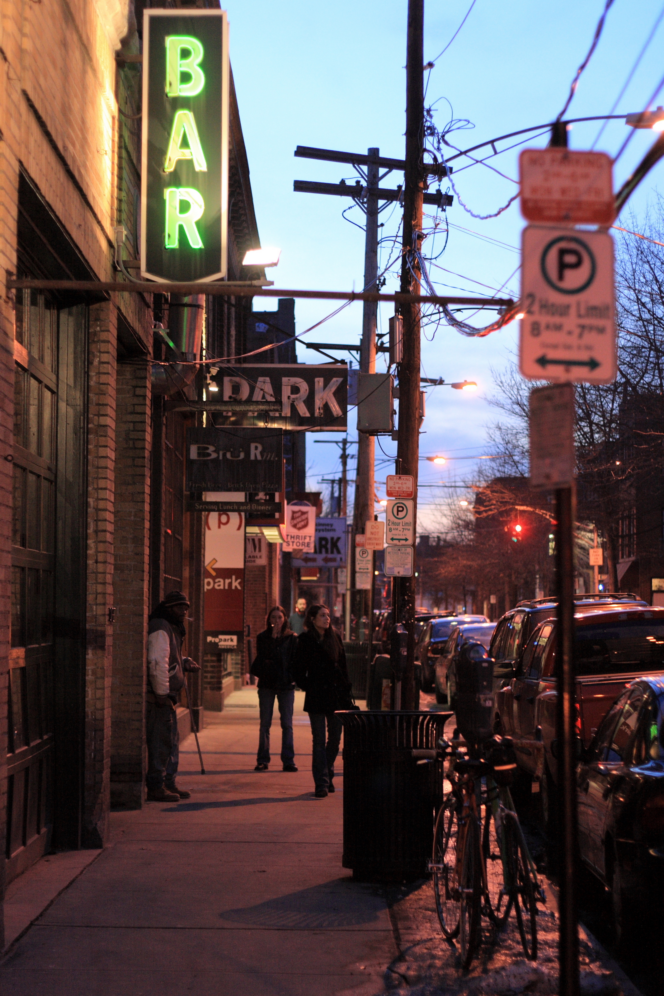 A bar named Bar in New Haven, Connecticut, which includes a microbrewery and dining area called the BrüRm (Bru Room).